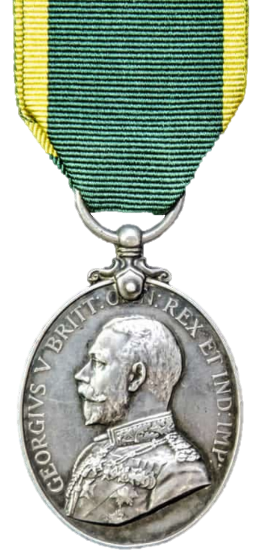 British award for 12 years service in the Territorial Army, awarded from 1921-30